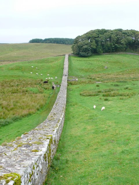 Hadrians wall Looking NE along the line of the wall from the NE corner of Housesteads Fort. The Knag Burn Gate in the wall is visible in the valley.